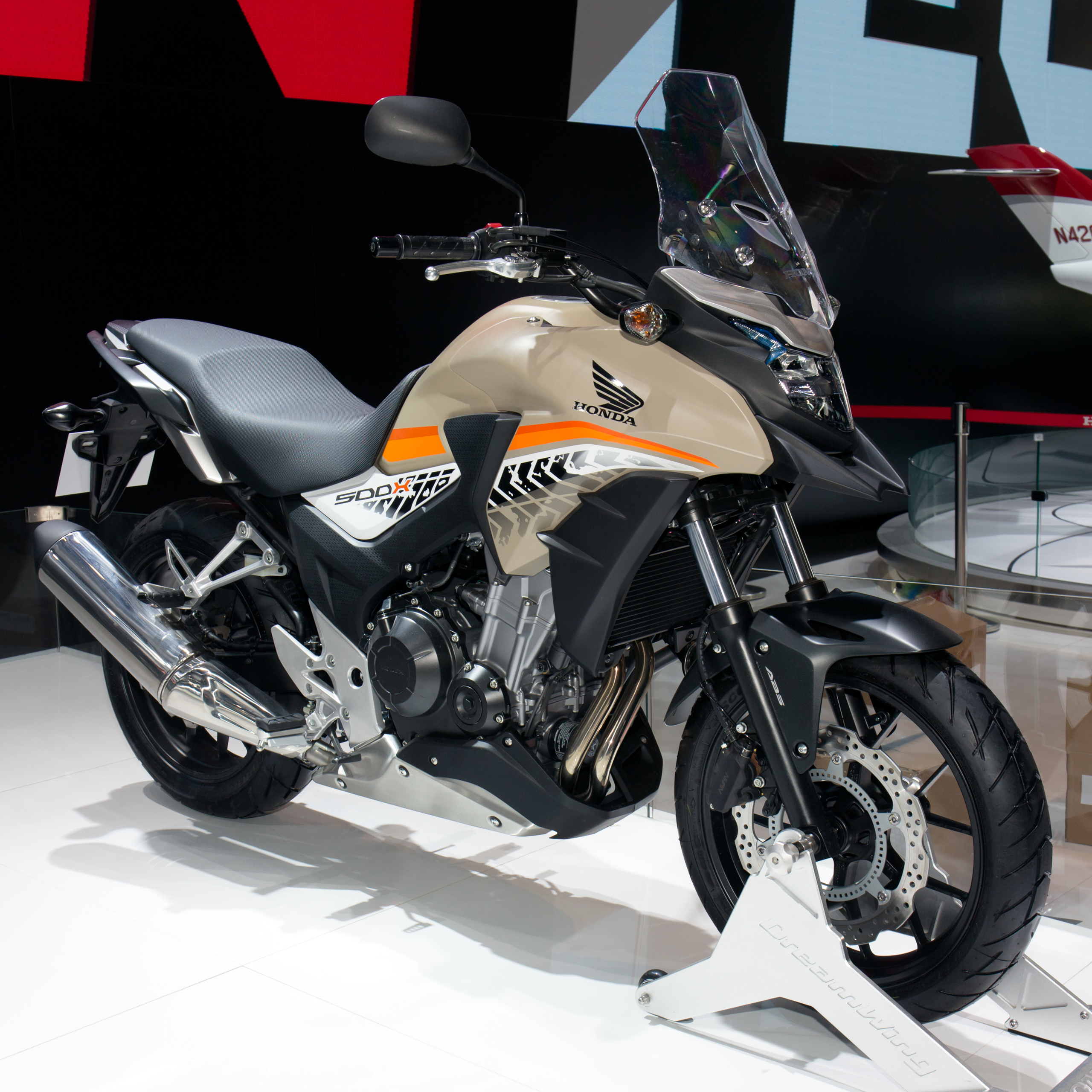 Auto China 2016: Honda CB500X